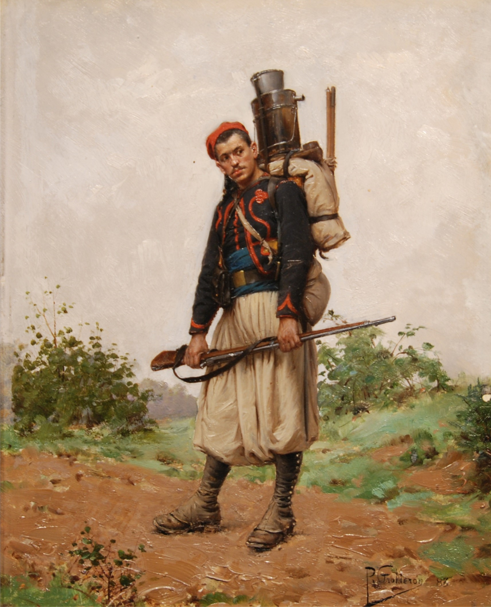 Zouave, 1870